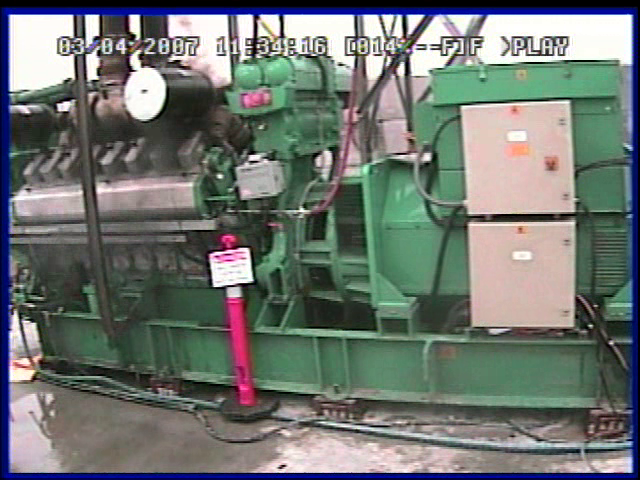 Snapshot from the video DHS released as part of the Aurora FOIA request, 'aurora_high_res.wmv', at 00:41. It displays the diesel generator beginning to smoke.